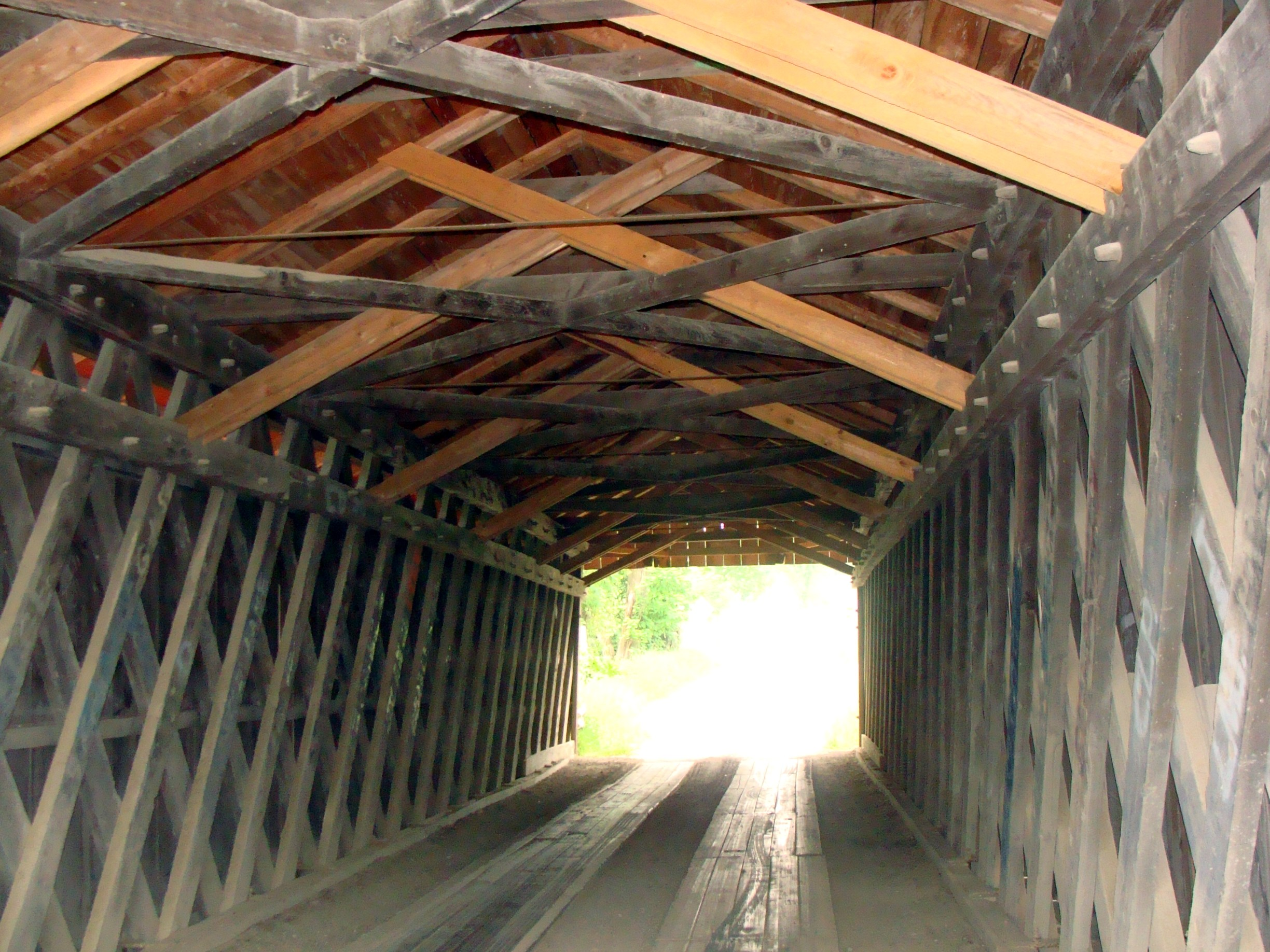 The interior of the Waterford Covered Bridge from the east.